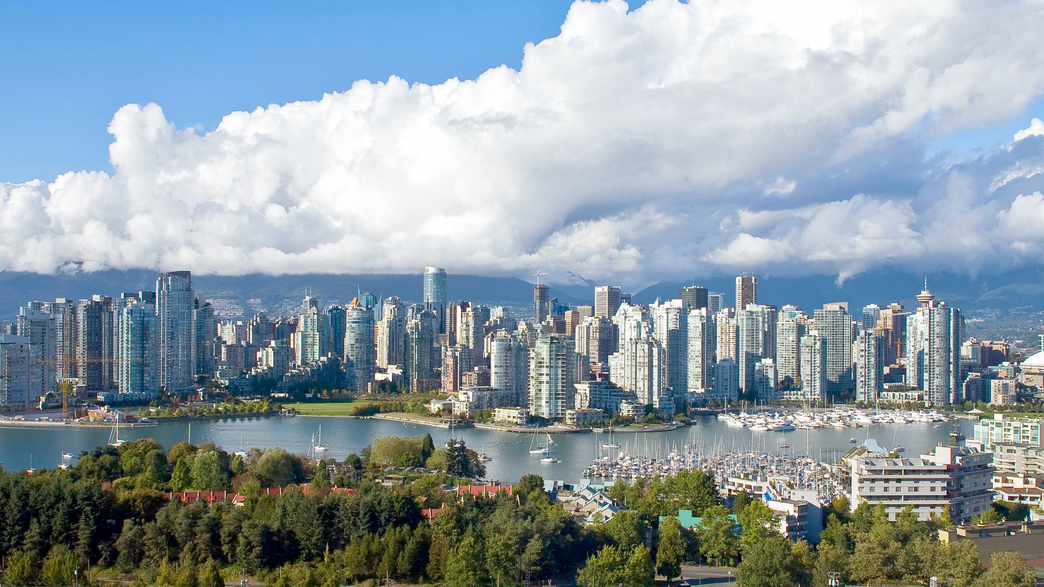 Area of the master plan for Yaletown that was worked on after the 86 expo by Arthur Erickson, Barry Downs, etc.